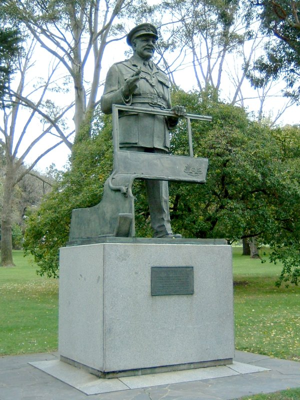 Statue of Field Marshal Sir Thomas Blamey in King's Domain, Melbourne. The plaque reads: Field Marshal Sir Thomas Albert Blamey1884 – 1951Australian Military Forces 1906 – 1951General Officer Commanding Australian Imperial Forces 1939 – 1942Commander in Chief Australian Military Forces 1940 – 1945Commander Allied Land Forces South West Pacific Area 1942 – 1945.Statue:begun 1958, erected February 1960 [1]